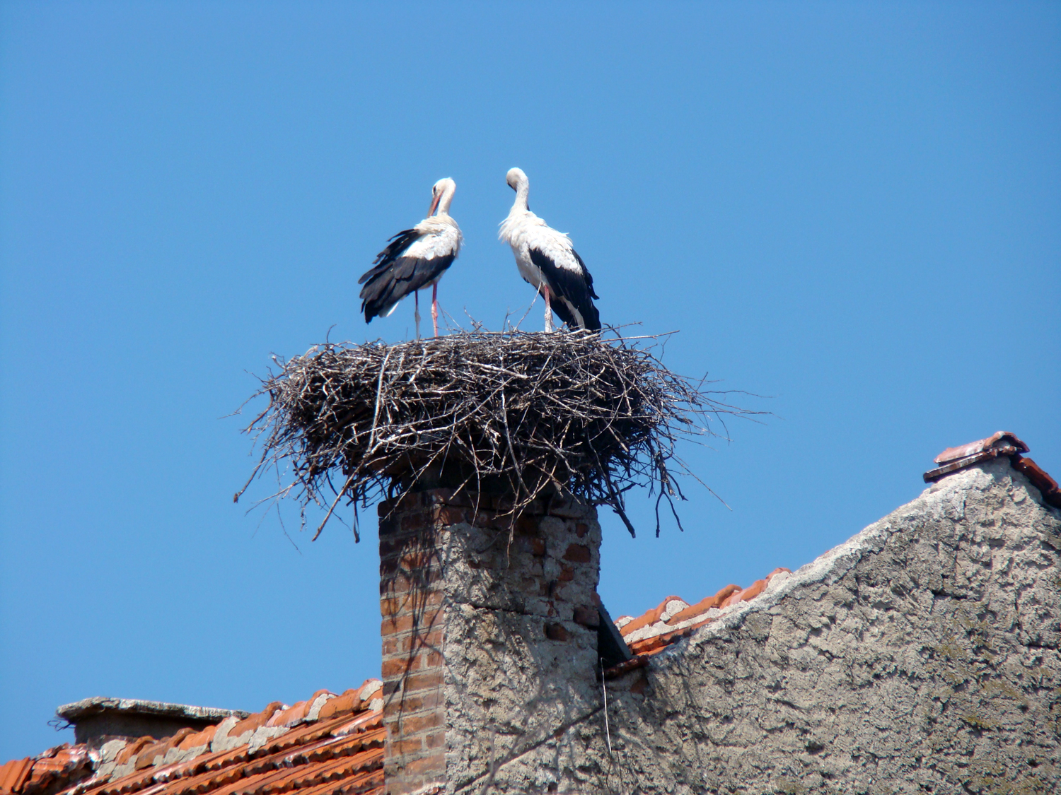 Chimney with a stork nest